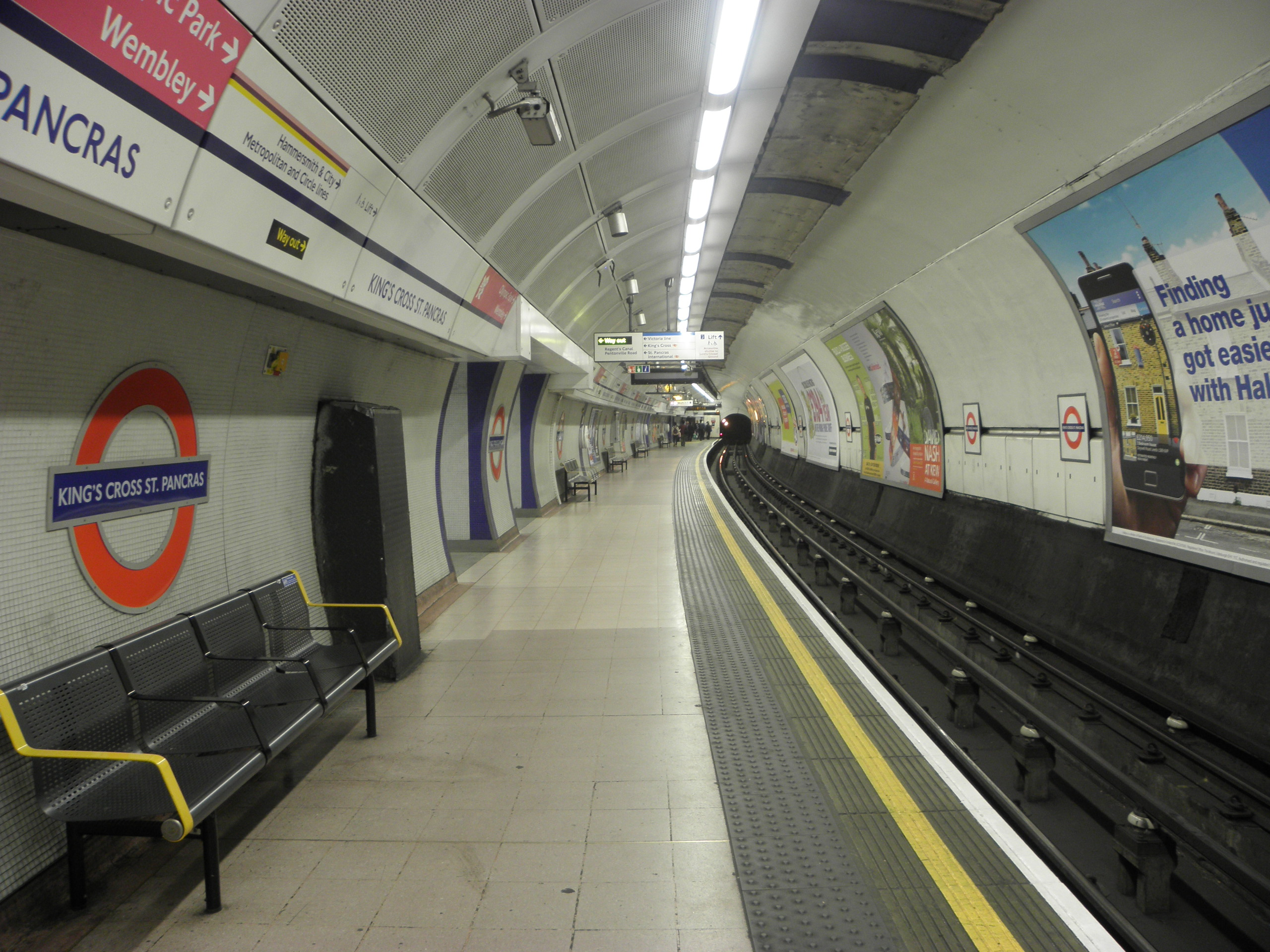 King's Cross St. Pancras station Piccadilly line northbound platform looking south in 2012